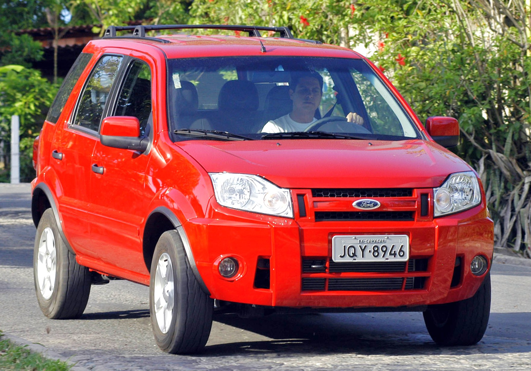 A Ford EcoSport in Brazil